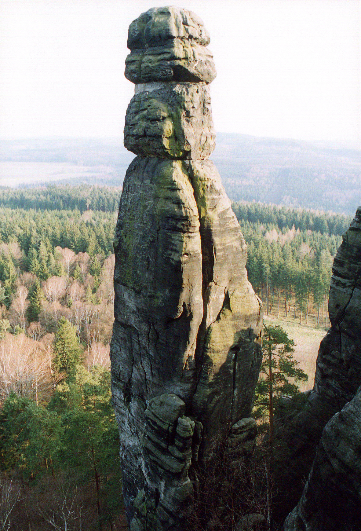 self taken picture, taken in 2001 shows the rock "Barbarine" at the "Pfaffenstein" in the elb sandstone mountains